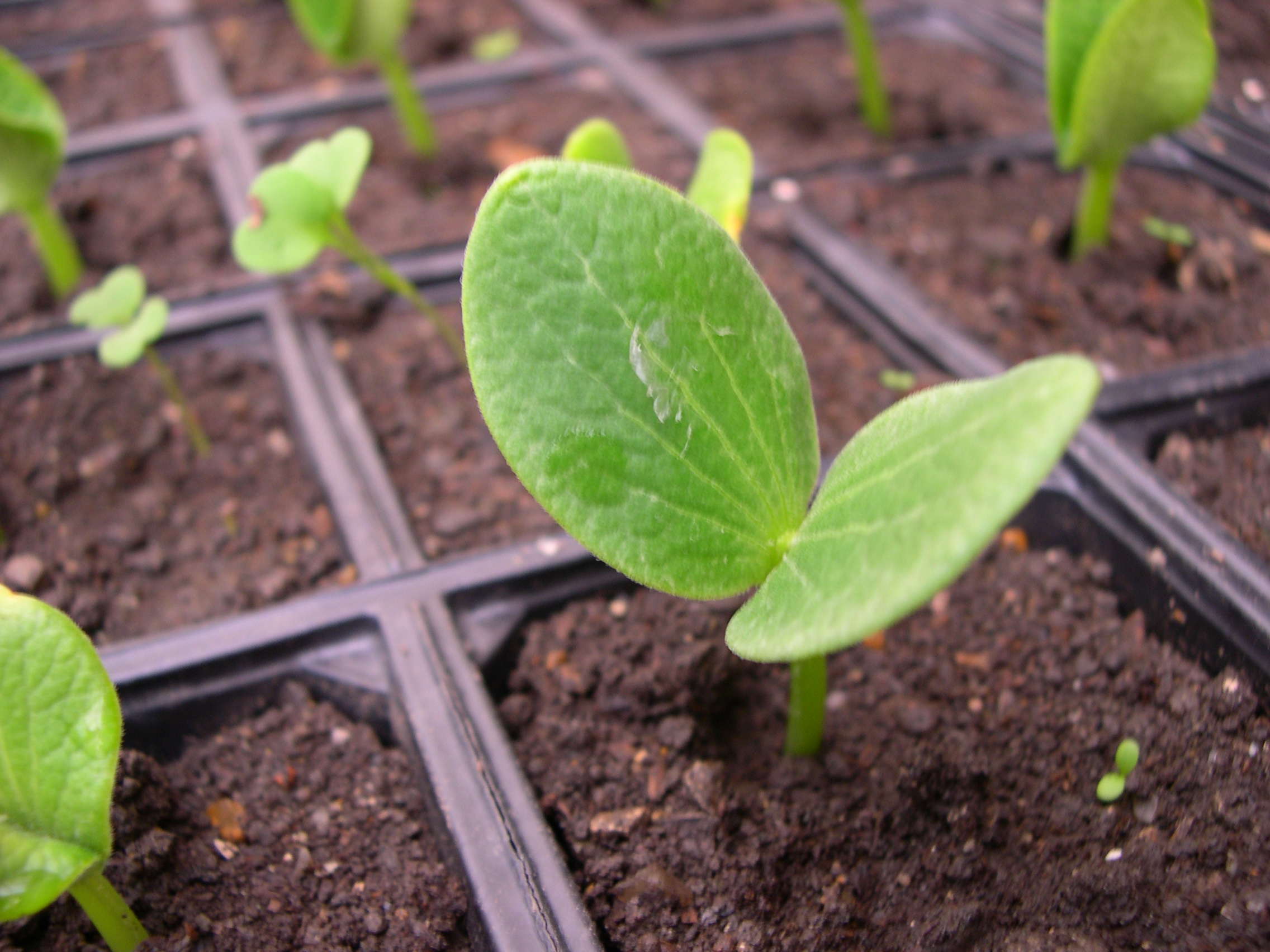 Kabocha seedling, a pumpkin group of the species Cucurbita maxima.